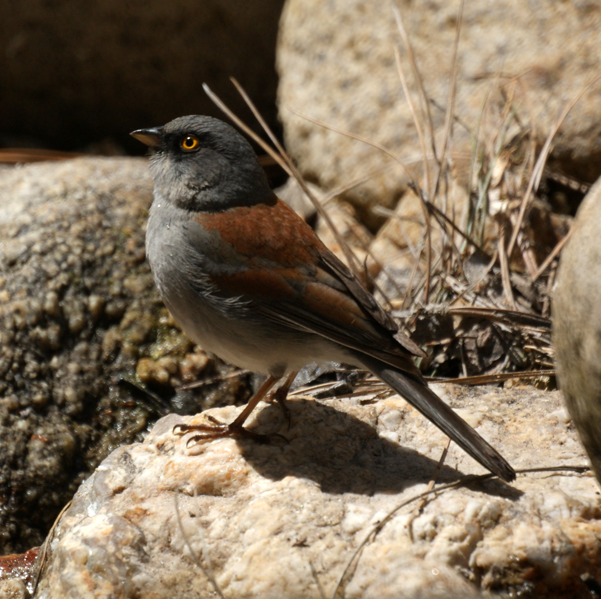 Junco phaeonotus, Tucson, Arizona